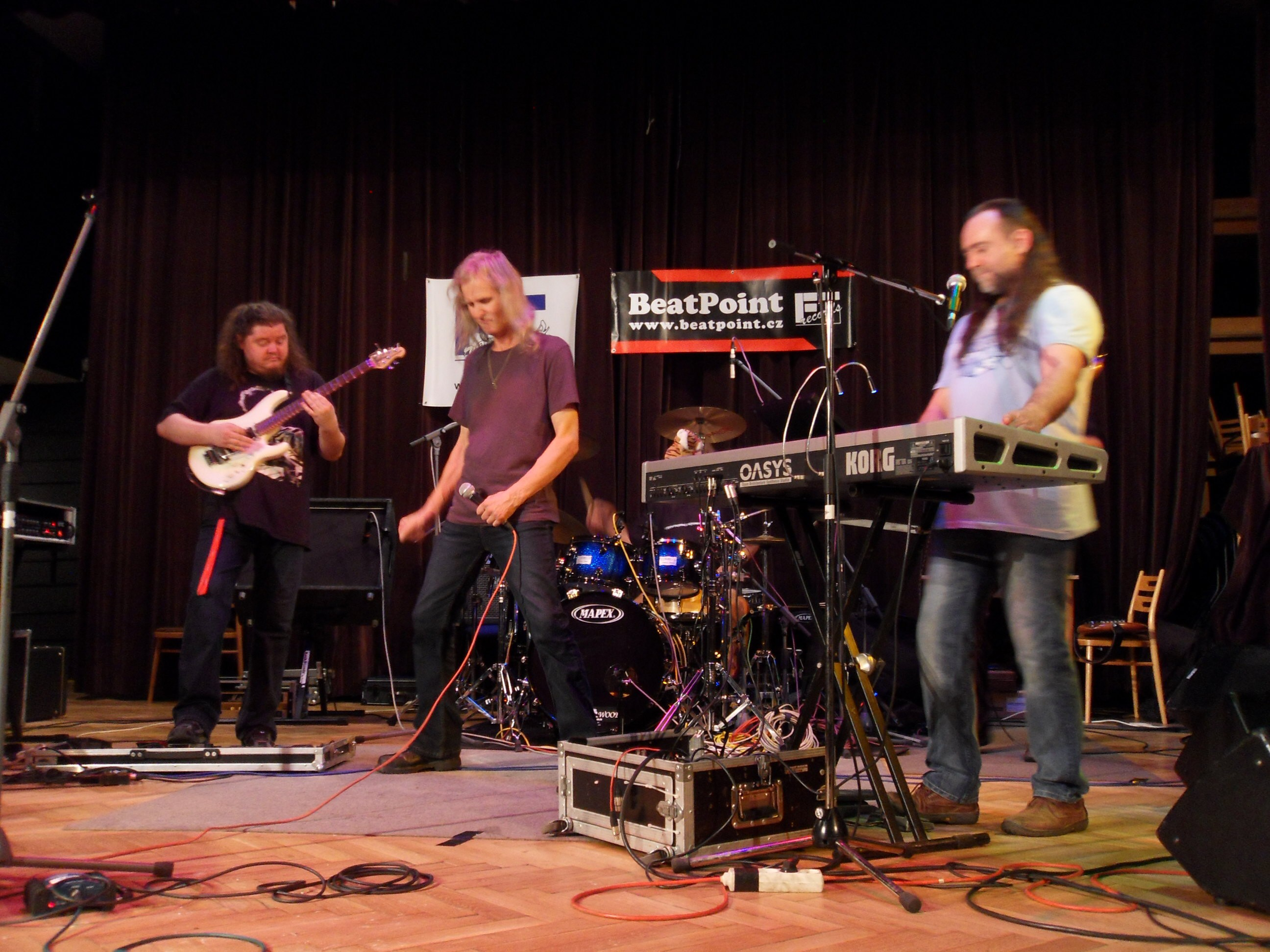 Czech rock band Taxi, from left to right: David Kousal, Vilém Majtner, Borek Nedorost, Brno, Czech Republic